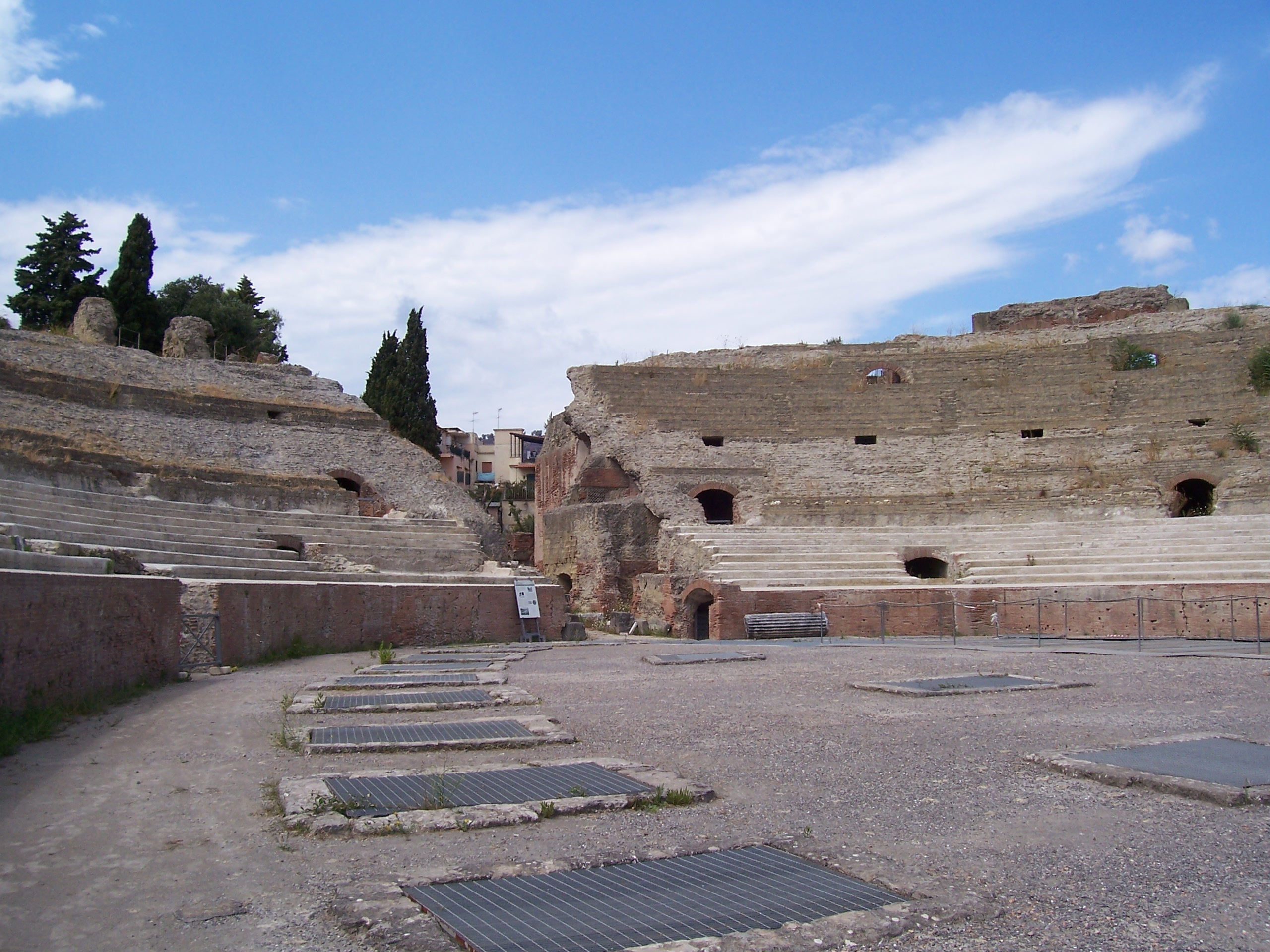 The Flavian Amphitheater (Anfiteatro flaviano puteolano), located in Pozzuoli, is the third largest Roman amphitheater in Italy.